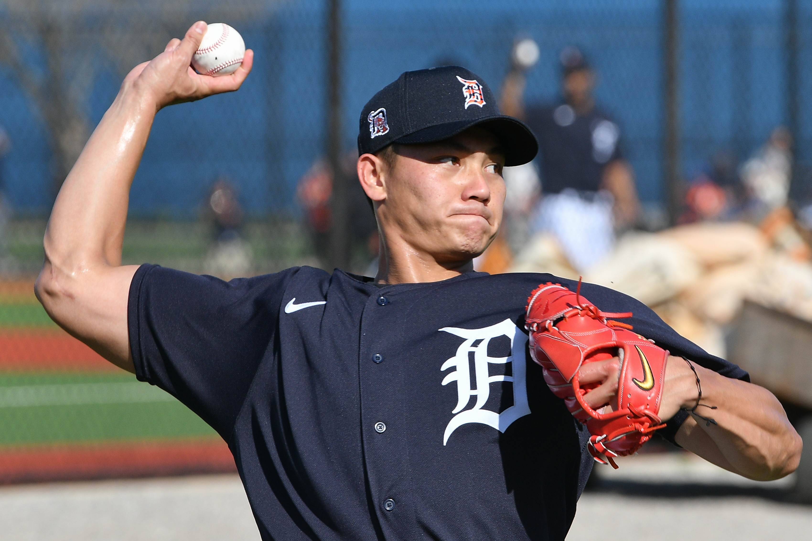 Shao-Ching Chiang. Tigertown. Lakeland, Fla. Feb. 18, 2020. (Photo by Tom Hagerty.)